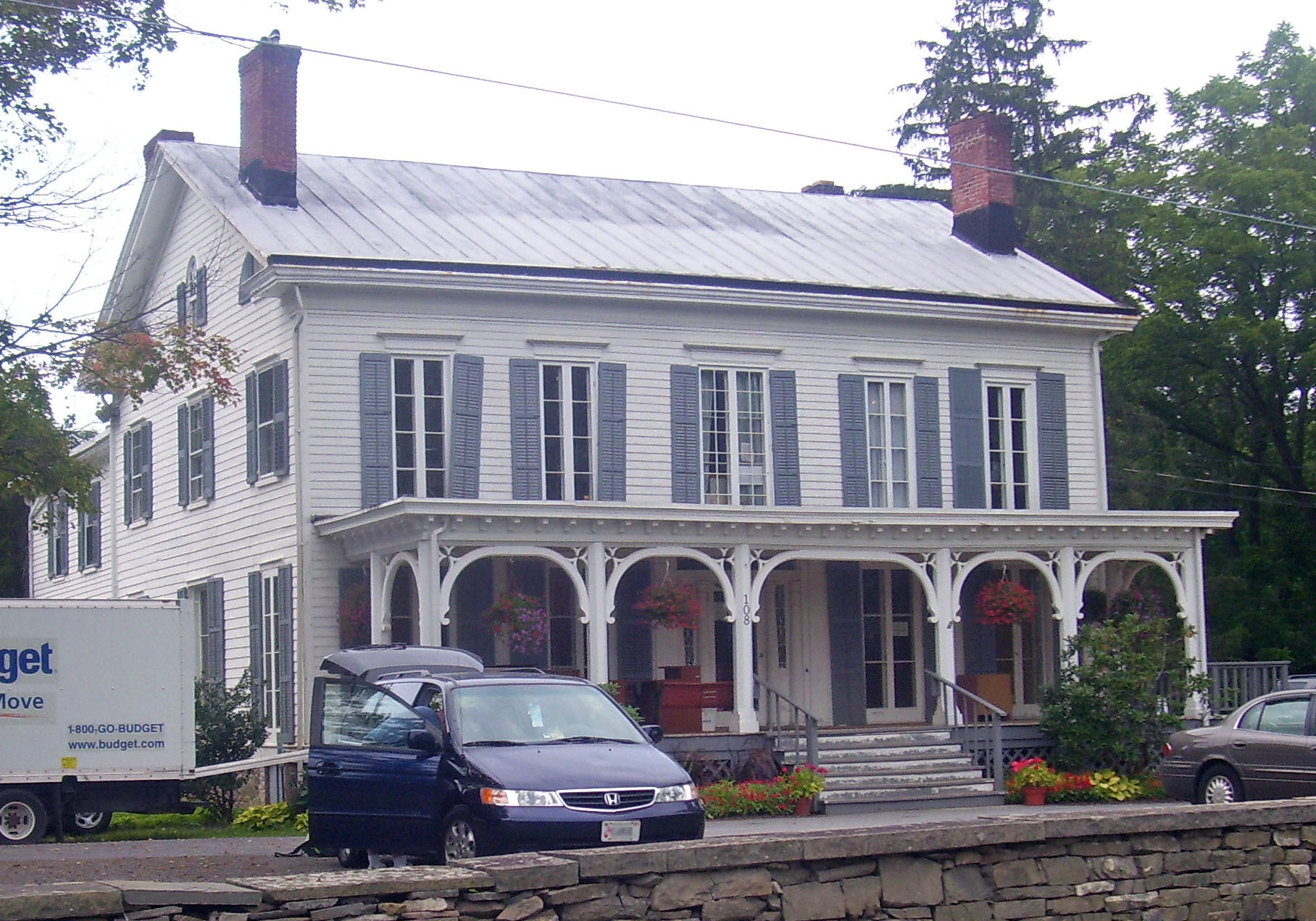 The Maples, Rhinebeck, NY, USA. License plate number on vehicle obscured to protect owner's privacy.